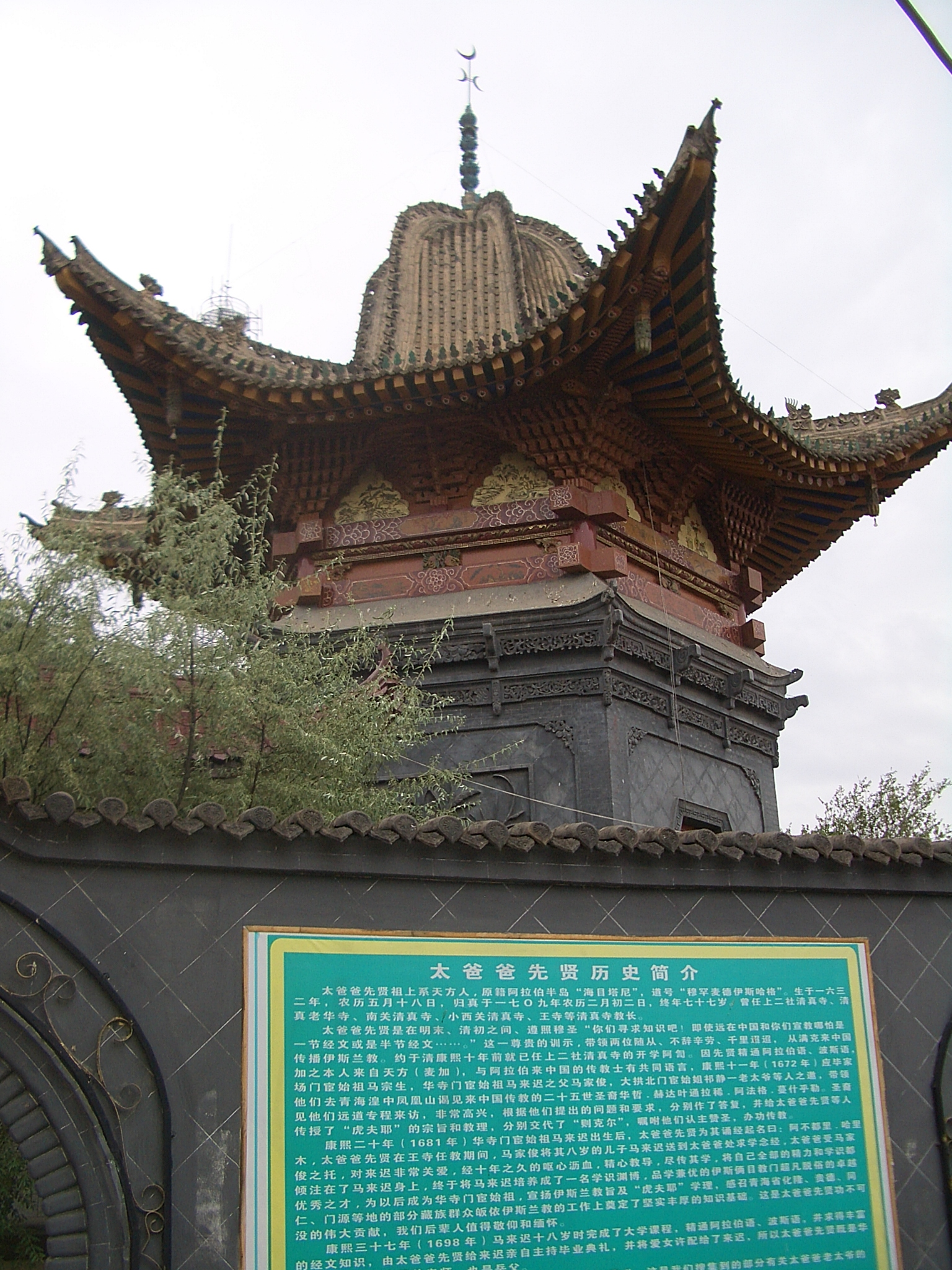 Tai Baba Gongbei in Linxia City